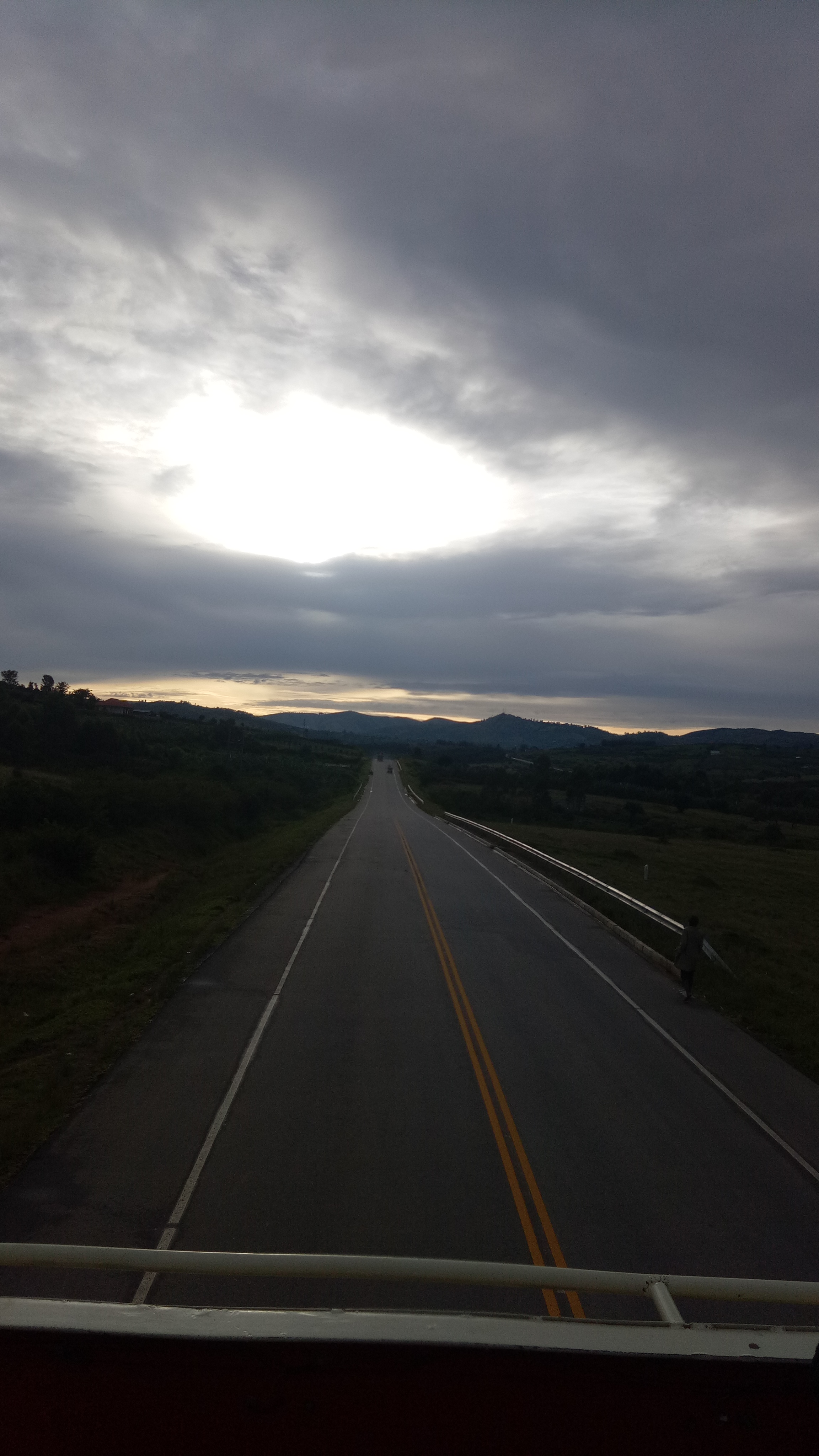 Road trip in Africa This is an image with the theme "Africa on the Move or Transport" from: Uganda